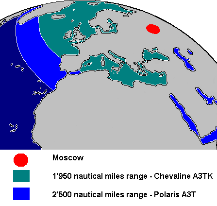 Drawn by the author Brian.Burnell. The drawing is entirely the author's own work and should be attributed to Brian.Burnell